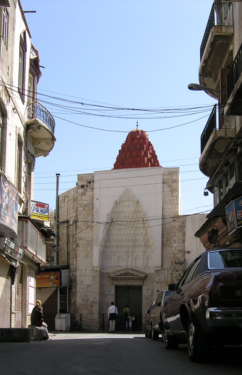 front of the bimaristan of nur al-din, 1154. the entrance iwan mirrors the dome above beautifully, but the refined, iranian-inspired architecture of this hospital is not the only point of interest here. the buildings in front of it are part of a modern french rebuilding of a large part of the old town after the french had bombed it in 1925, fighting a syrian insurgency against the so-called french mandate. the british and the french had carved up and shared the arab nations between themselves after the first world war, an ugly piece of colonialism, and much violence was used to silence local calls for independence.